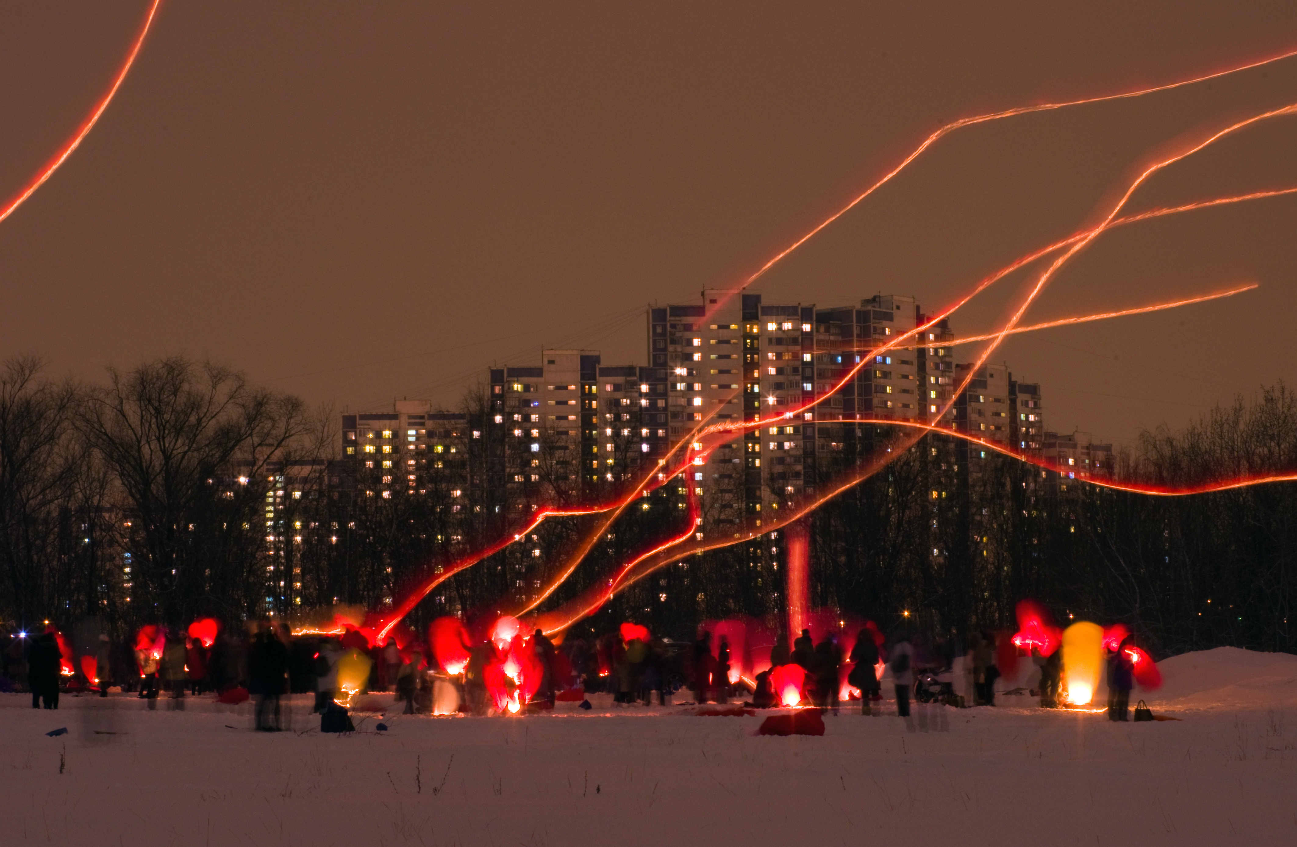 Moscow, sky lanterns launch in Nagatinskaya Poyma park. In backward - Nagatinskaya nabereznaya 54